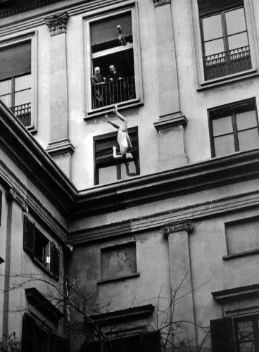 Reconstruction of the death of Giuseppe Pinelli